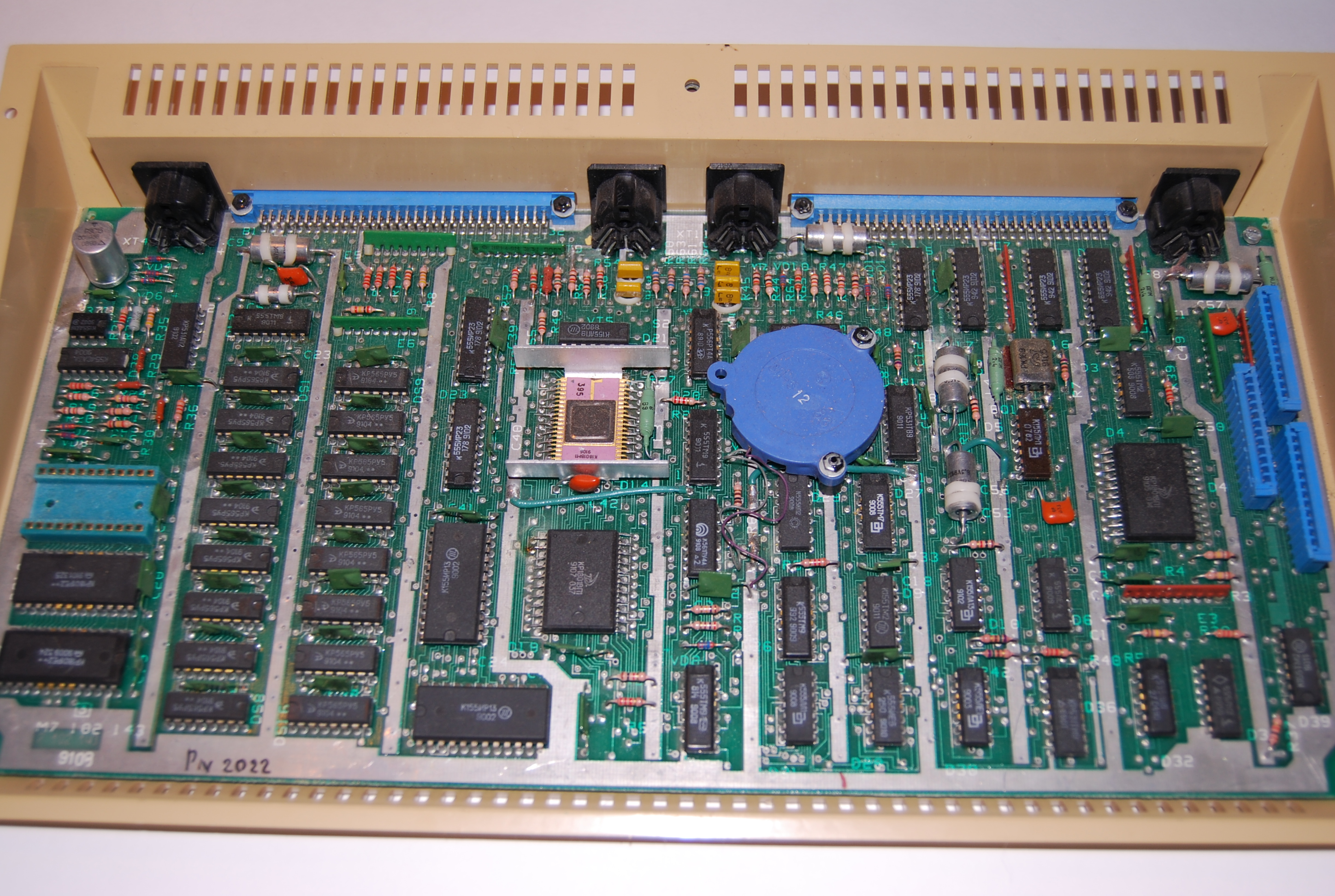 Soviet computer BK 0011M, inside the case.